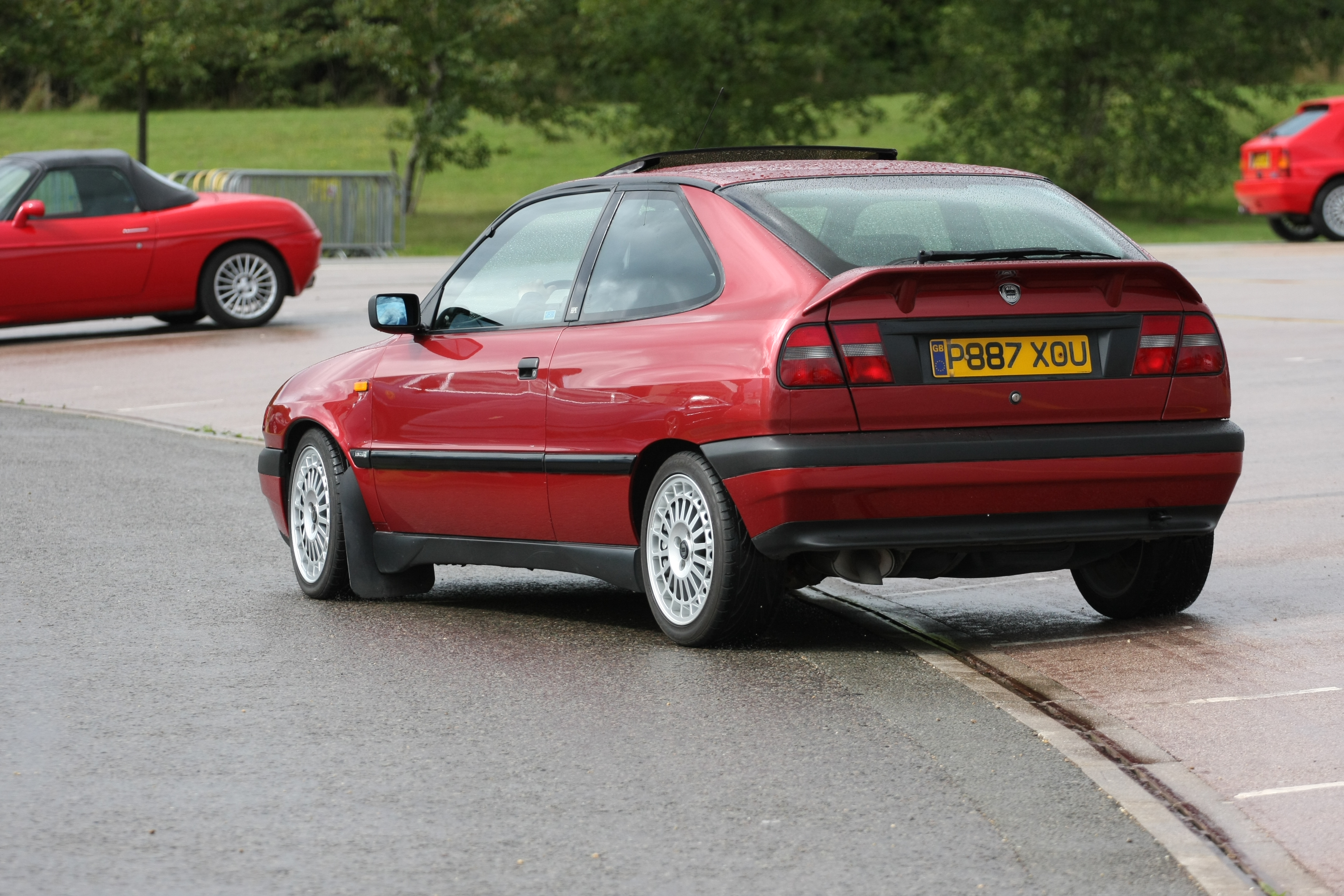 Auto Italia Autumn Italian Car Day Heritage Motor Centre Gaydon 2010